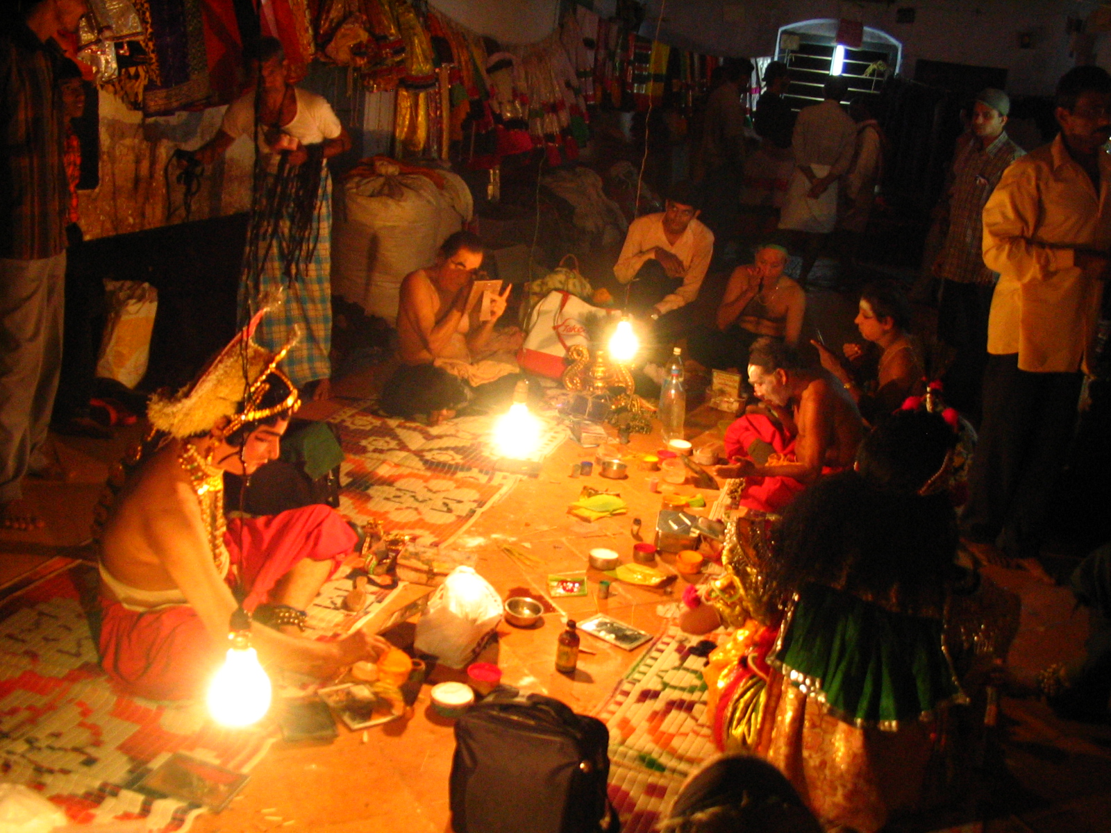 The Place wher the yakshagna artistes put their makeup on...